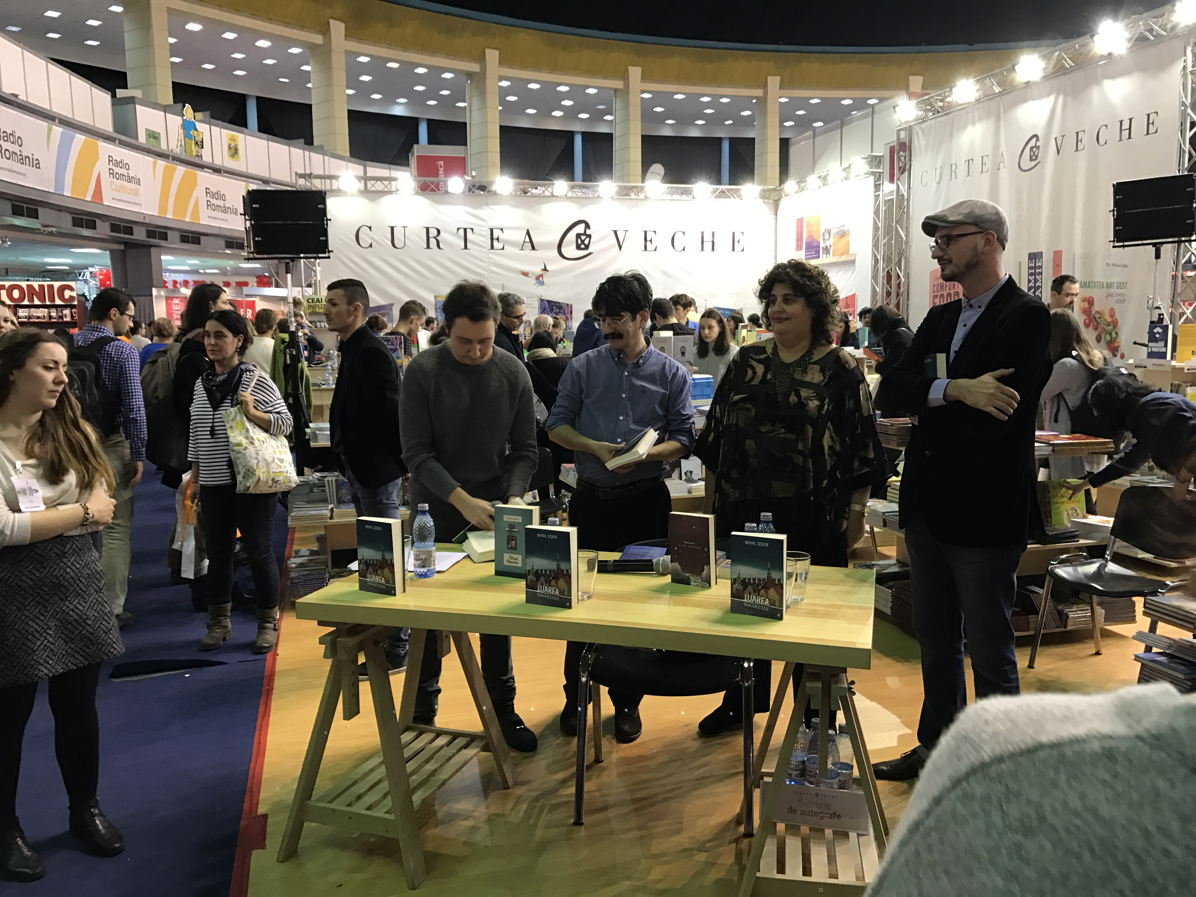 19 noiembrie 2016, Tîrgul de carte. Cu Bogdan Tănase